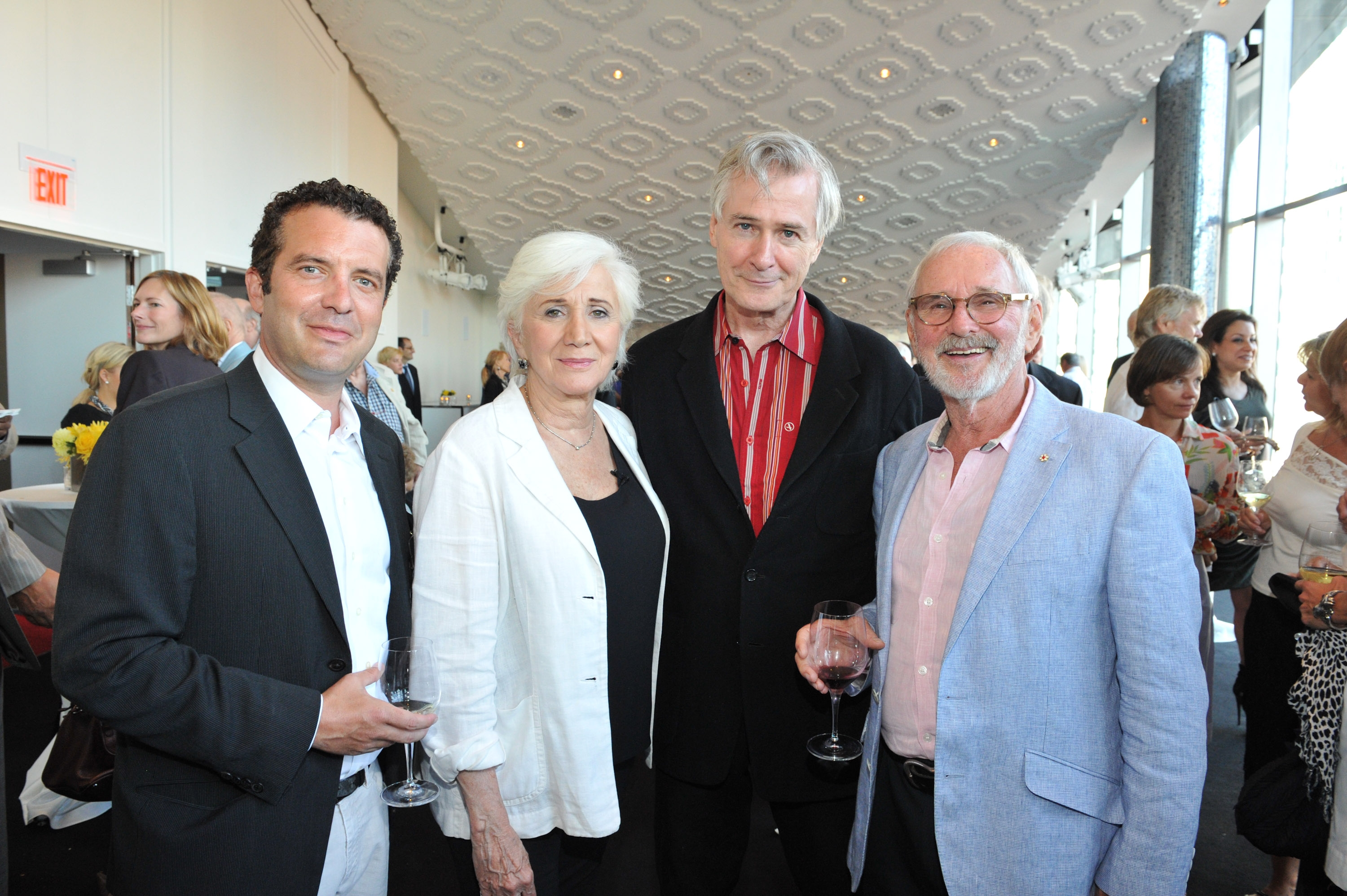 (L-R) Rick Mercer, Olympia Dukakis, John Patrick Shanley and Norman Jewison at Malaparte for "Norman Jewison and Friends with Moonstruck". Images courtesy of TIFF.